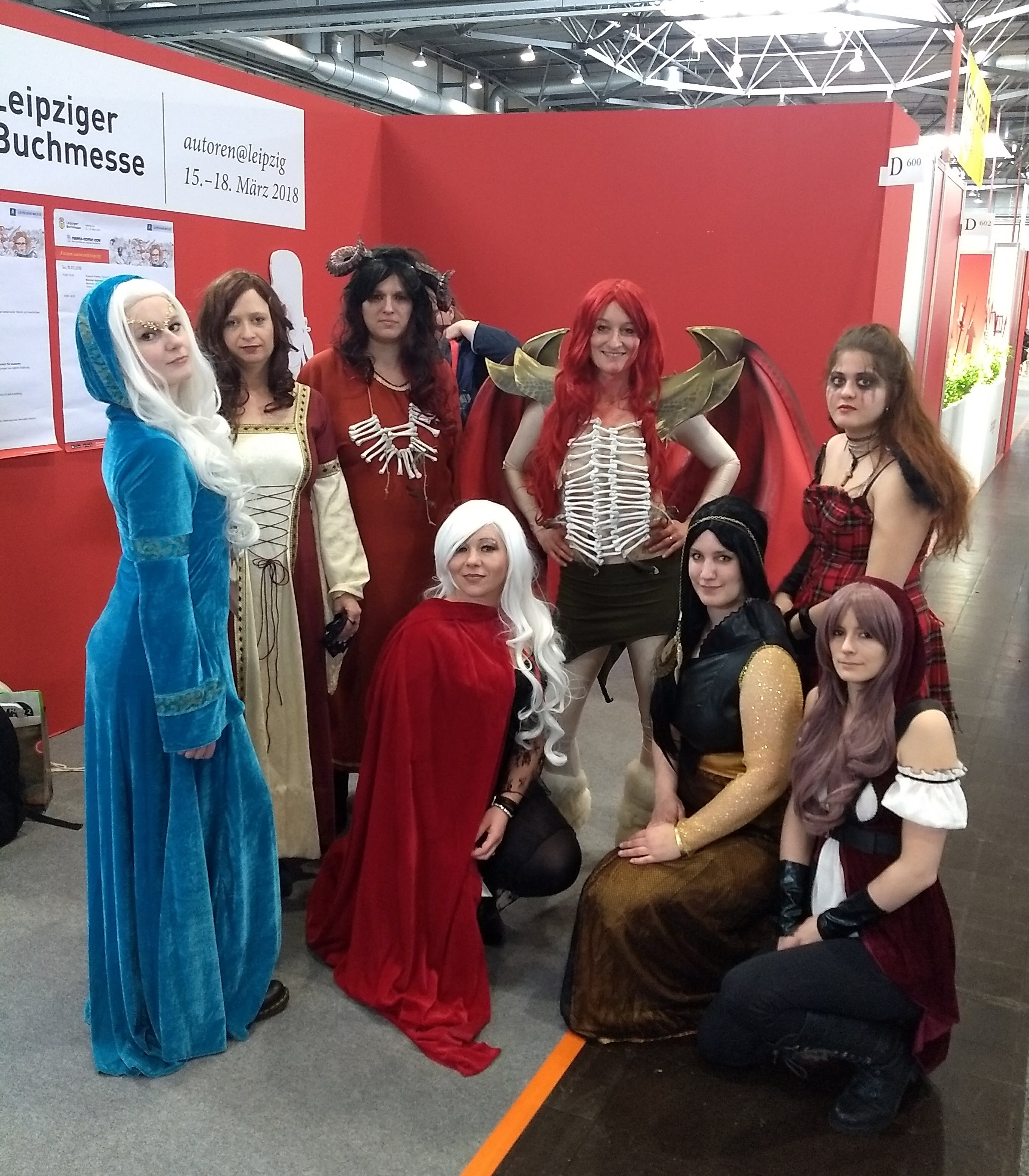 Mira Valentin (behind, 4th person from left) with her Cosplayer-Team on the Leipzig Book Fair 2018